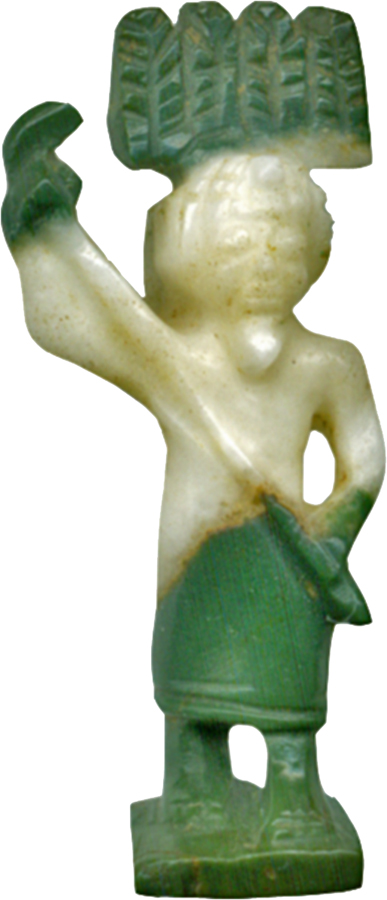 This amulet features Onuris standing and holding a spear in a green and white banded agate. This was probably made during the 26th Dynasty.